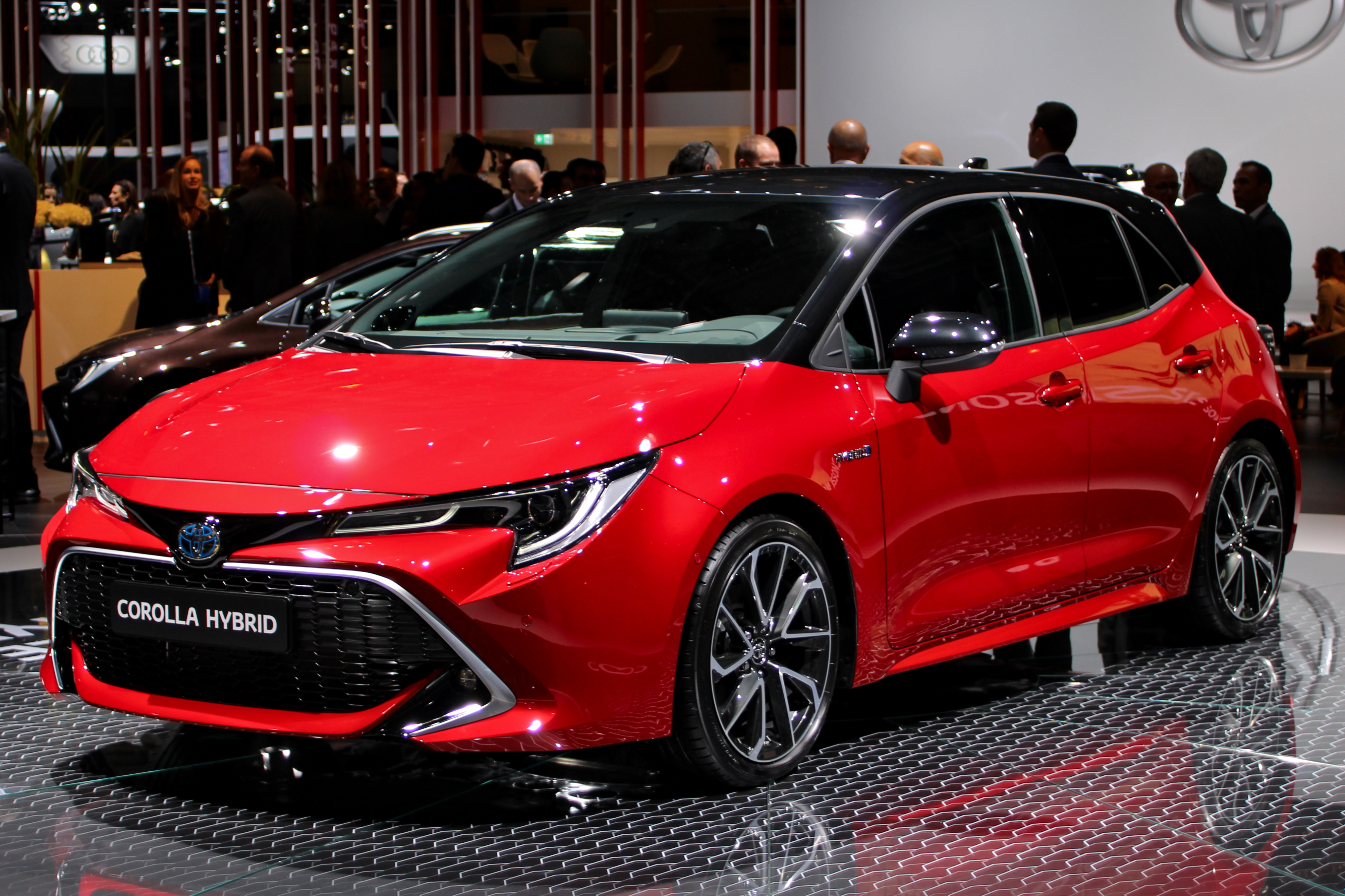 Toyota Corolla Hybrid at Paris Motor Show 2018